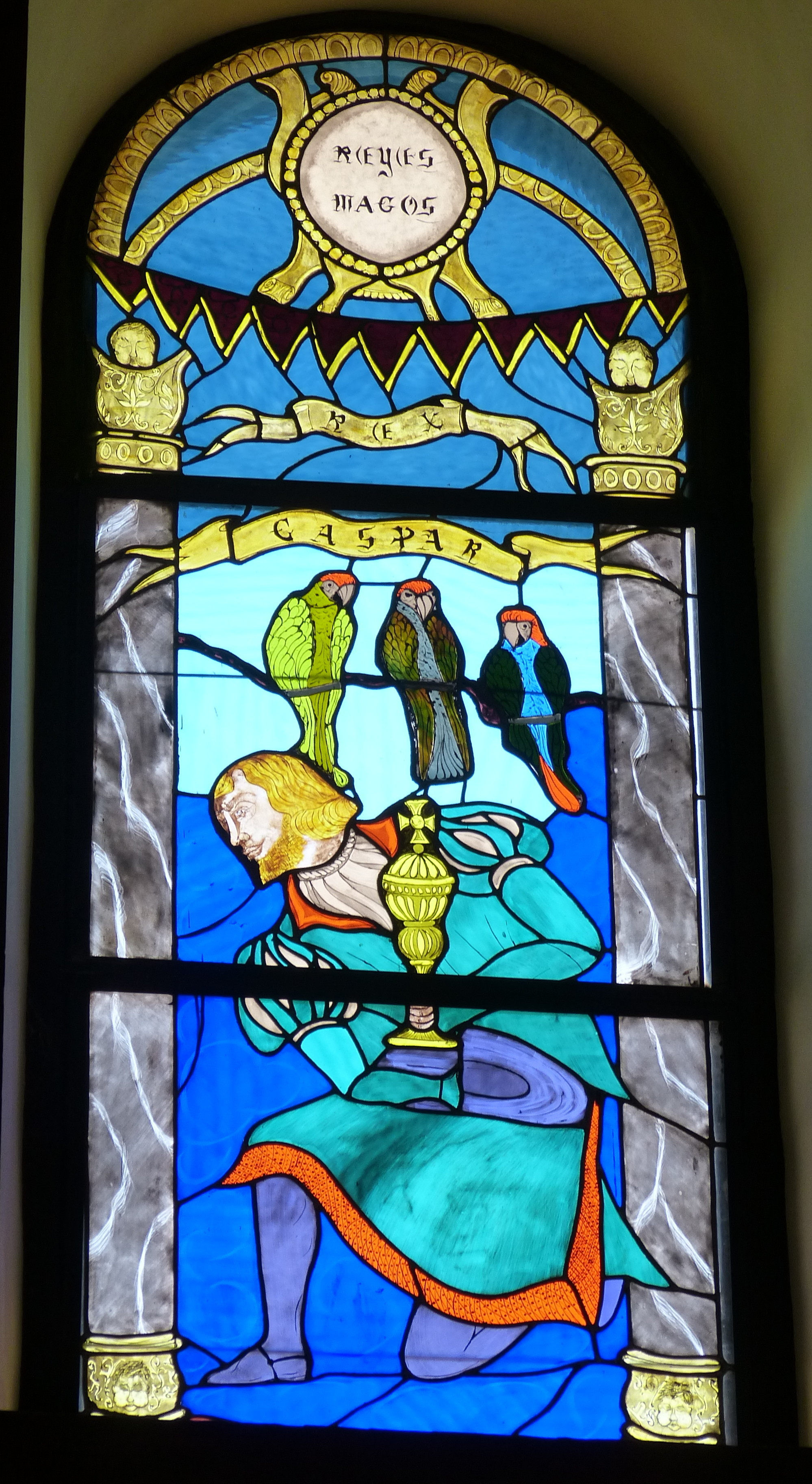 Agaete ( Gran Canaria ). Iglesia de la Concepción ( 1875 ) - Stained glass window showing Caspar, one of the Three Wise Men.